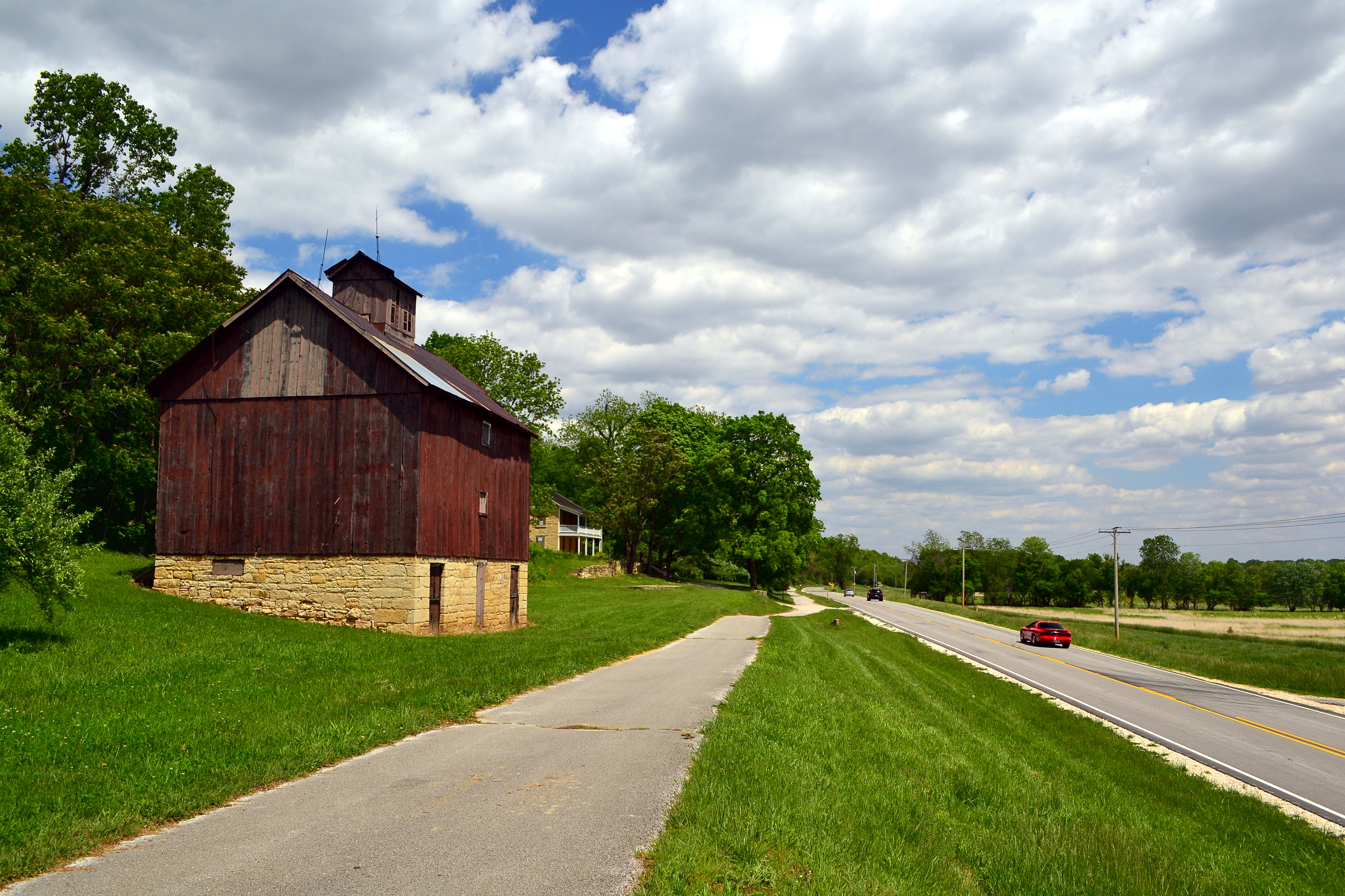 The Sam Vadalabene Bike Trail (left) and Illinois Route 100 near Pere Marquette State Park. The trail and the portion of the road it parallels are usually within eyeshot of the Mississippi or Illinois River, but at this location both trail and road a somewhat removed from the Illinois River. On the left of the image are the Smith-Duncan House and Eastman Barn